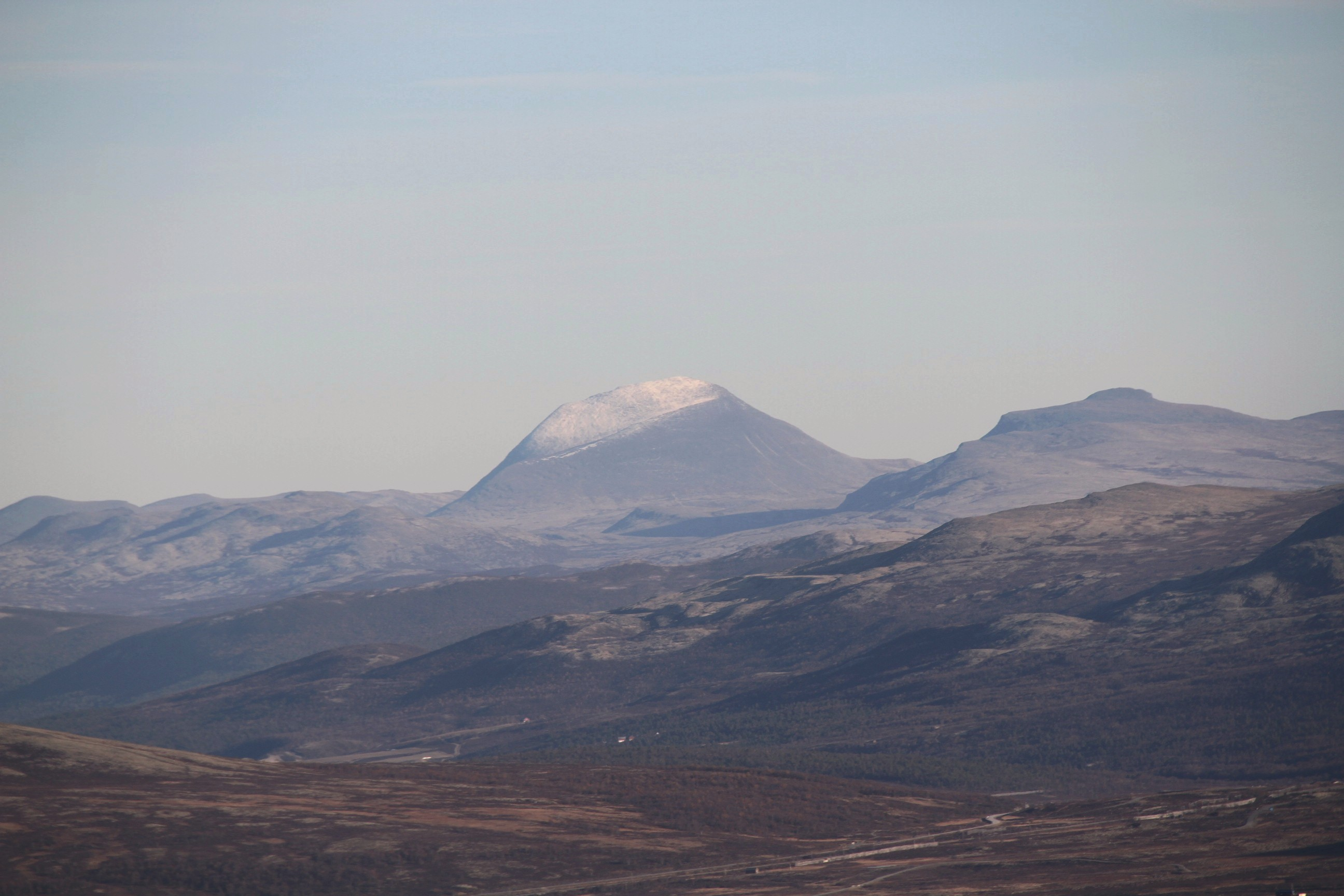 Storsølnkletten and surrounding mountains in the municipality of Alvdal, Hedmark county in central Norway.